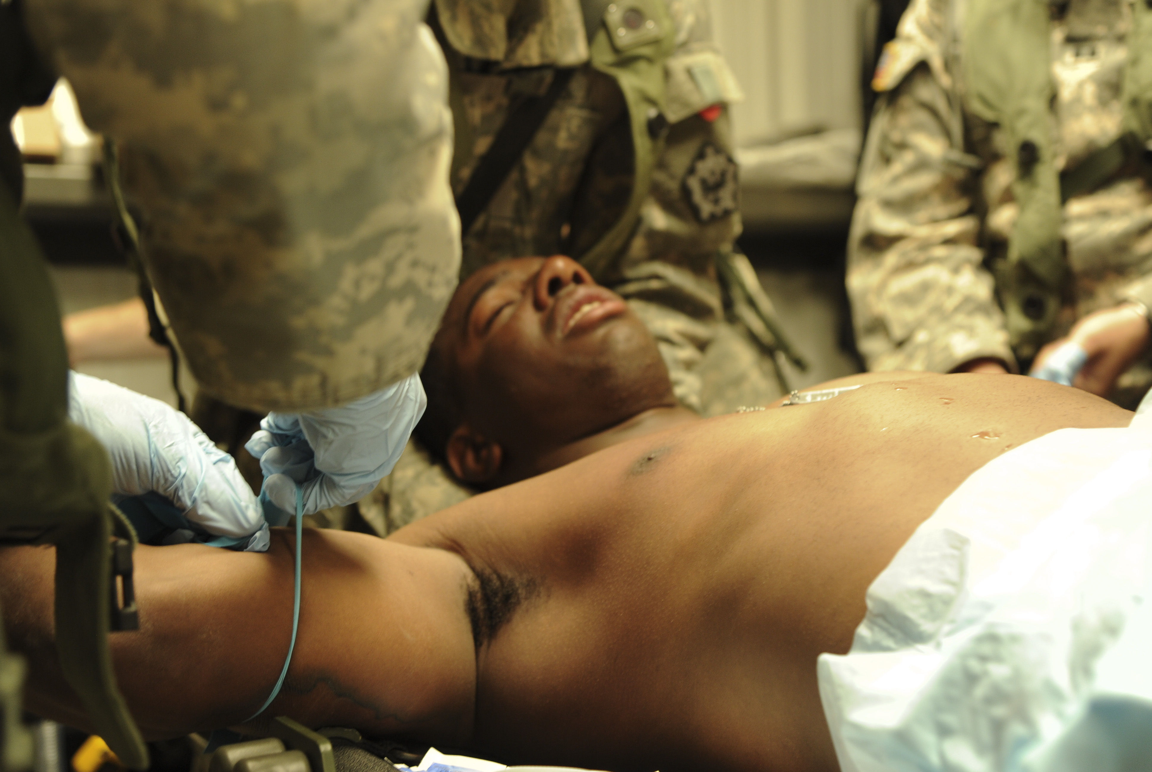 U.S. Army Pvt. Cecil Dean, 1st Battalion, 111th Engineering Company, is treated for heat exhaustion by Army medics of 2nd Squadron, 1st Cavalry, 4th Brigade, 2nd Infantry Division at Forward Operating Base Maimi, Fort Irwin, Calif., National Training Center, June 12, 2012. During NTC Army medics can expect to experience real world patients during training.